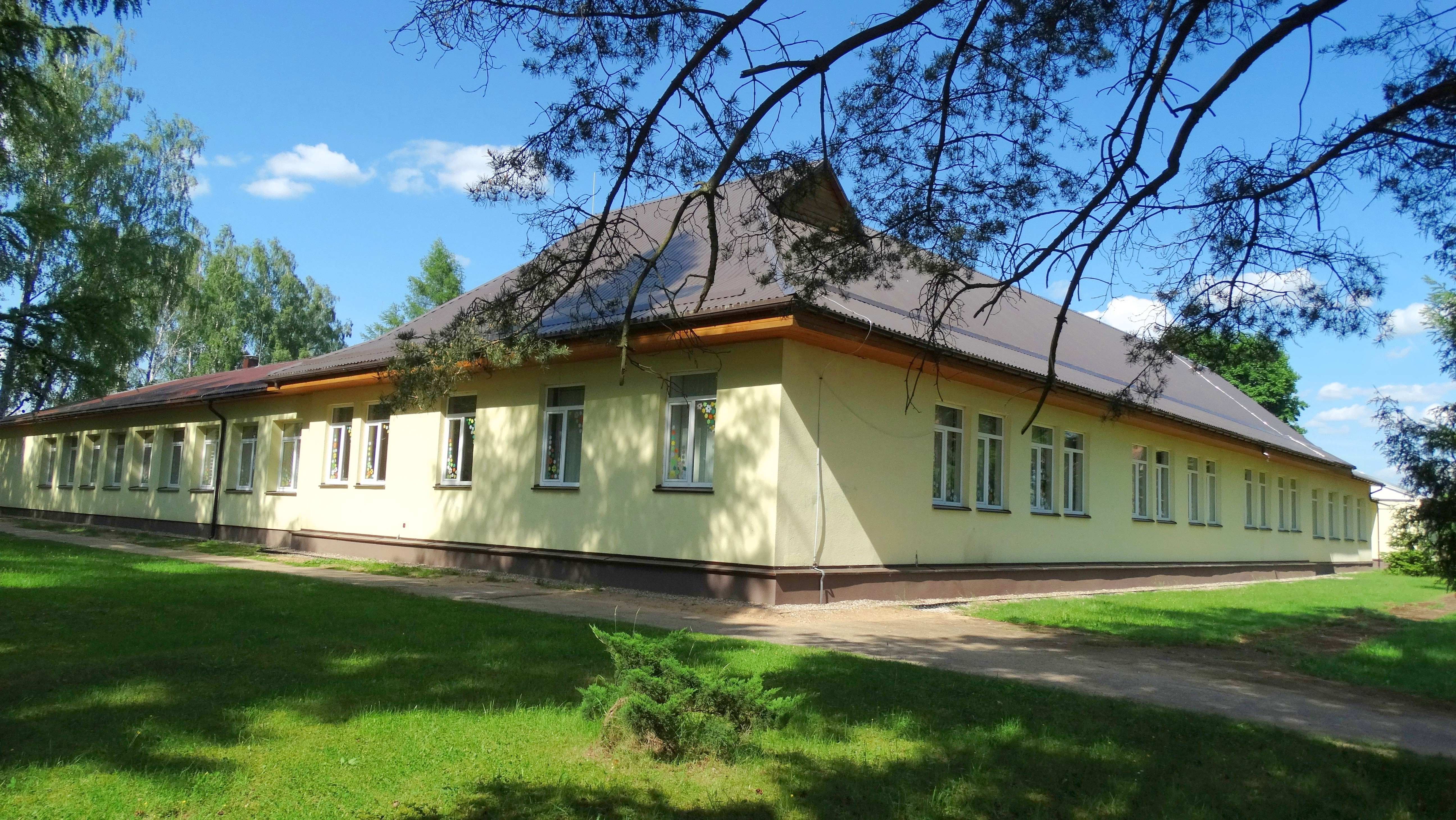 School, Šumskas, Vilnius District, Lithuania